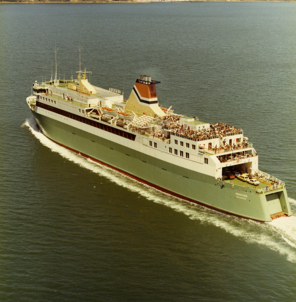 These images are from New Zealand Government Railways Department, General Manager's Office. The General Manager's office appears to have functioned as the Head Office of the department. Unfortunately the images have very little metadata. Each image has a unique record number e.g. CND 30.422 though not all items are described on Archway with any detail of location. Based on the cars, ferries and buses photographed the images are from circa 1985. For this image however, as it was the maiden voyage of the Arahura we know it is from 1983. AAEB W3875 Box 1